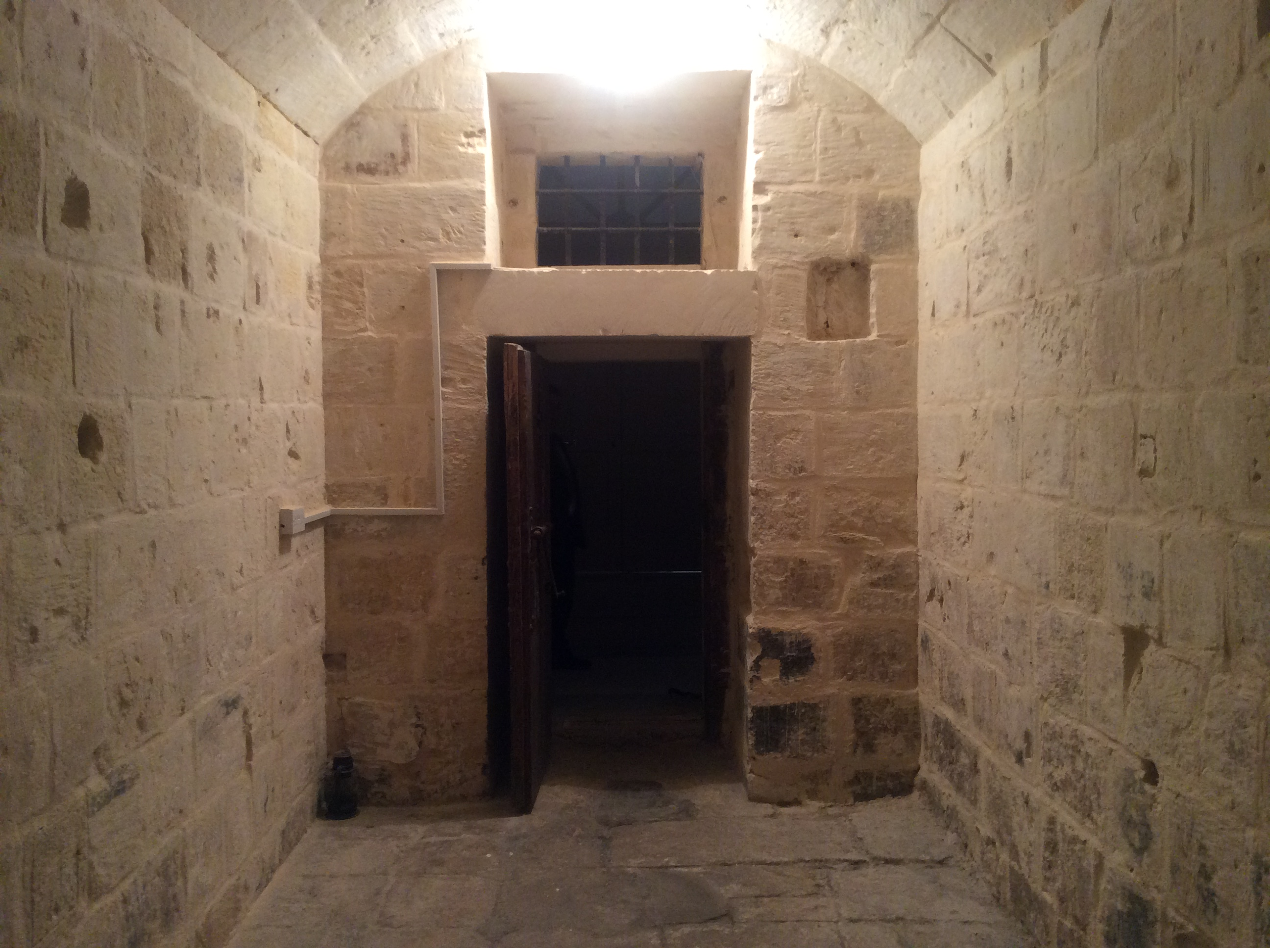 One of the prison cells of the Castellania in Valletta, Malta